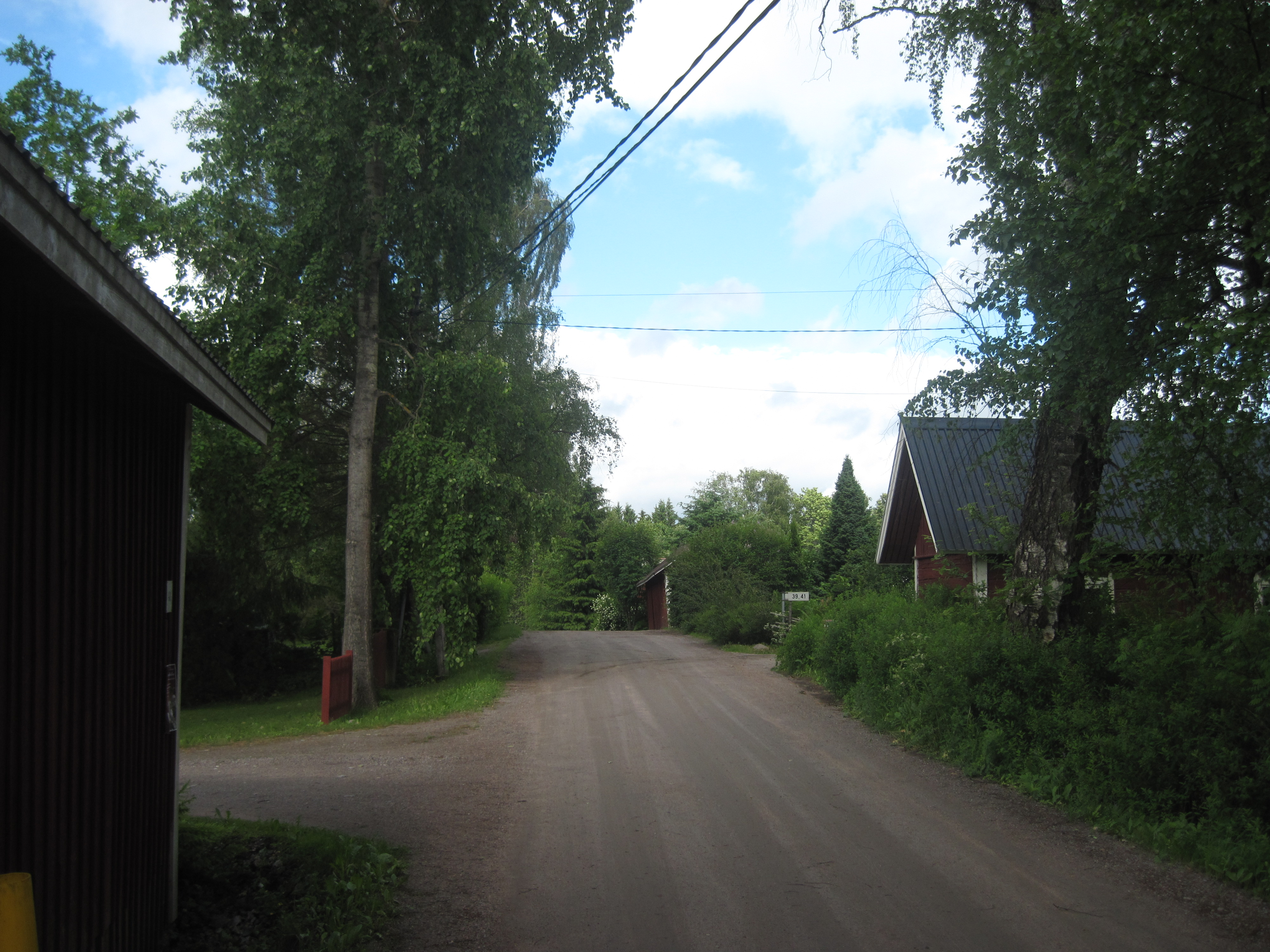 Paijalan kylätie, Tuusula, Finland